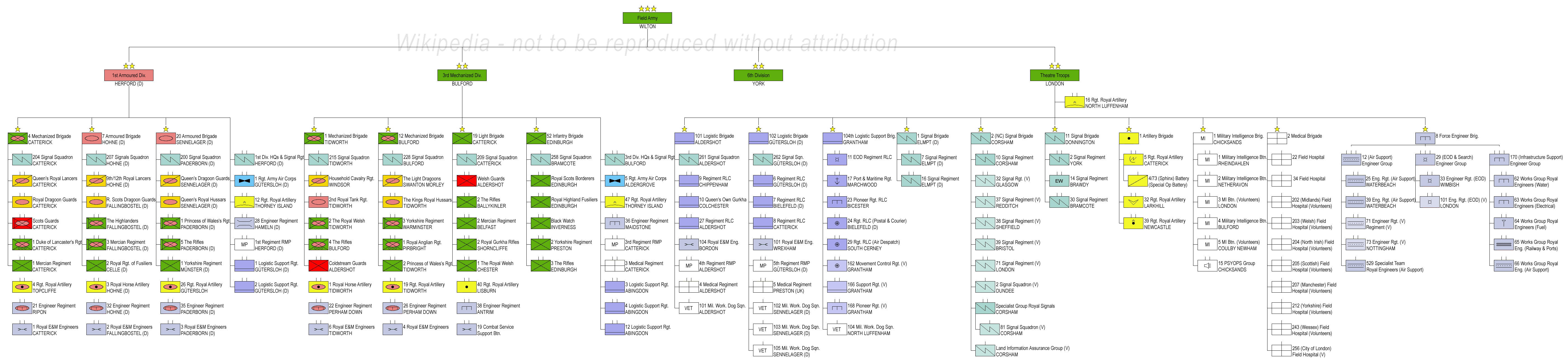 United Kingdom Field Army Structure